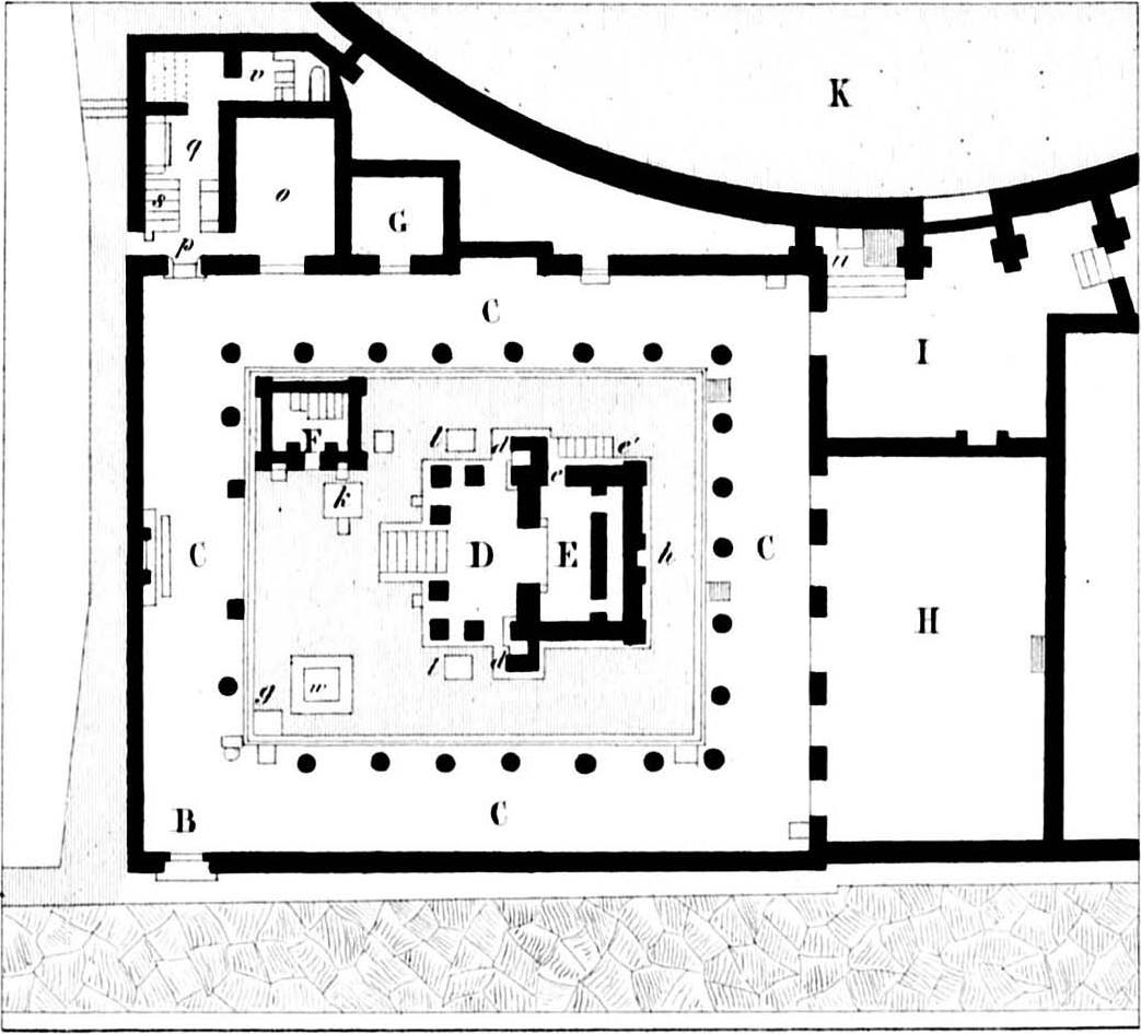 Temple of Isis, Regio VIII, Insula 7, Pompeii, plan.